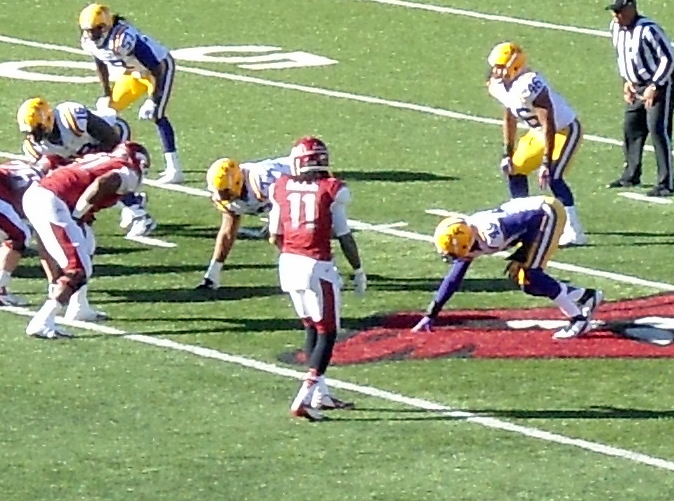 Cobi Hamilton plays in a NCAA football game for the Arkansas Razorbacks vs the LSU Tigers in Donald W. Reynolds Razorback Stadium, Fayetteville, AR